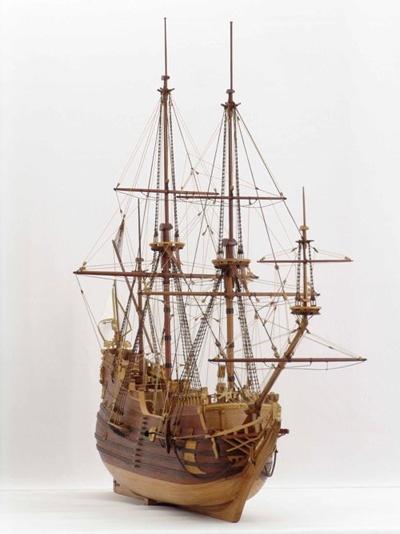 Model of a late 17th-century Fluyt, the Derfflinger